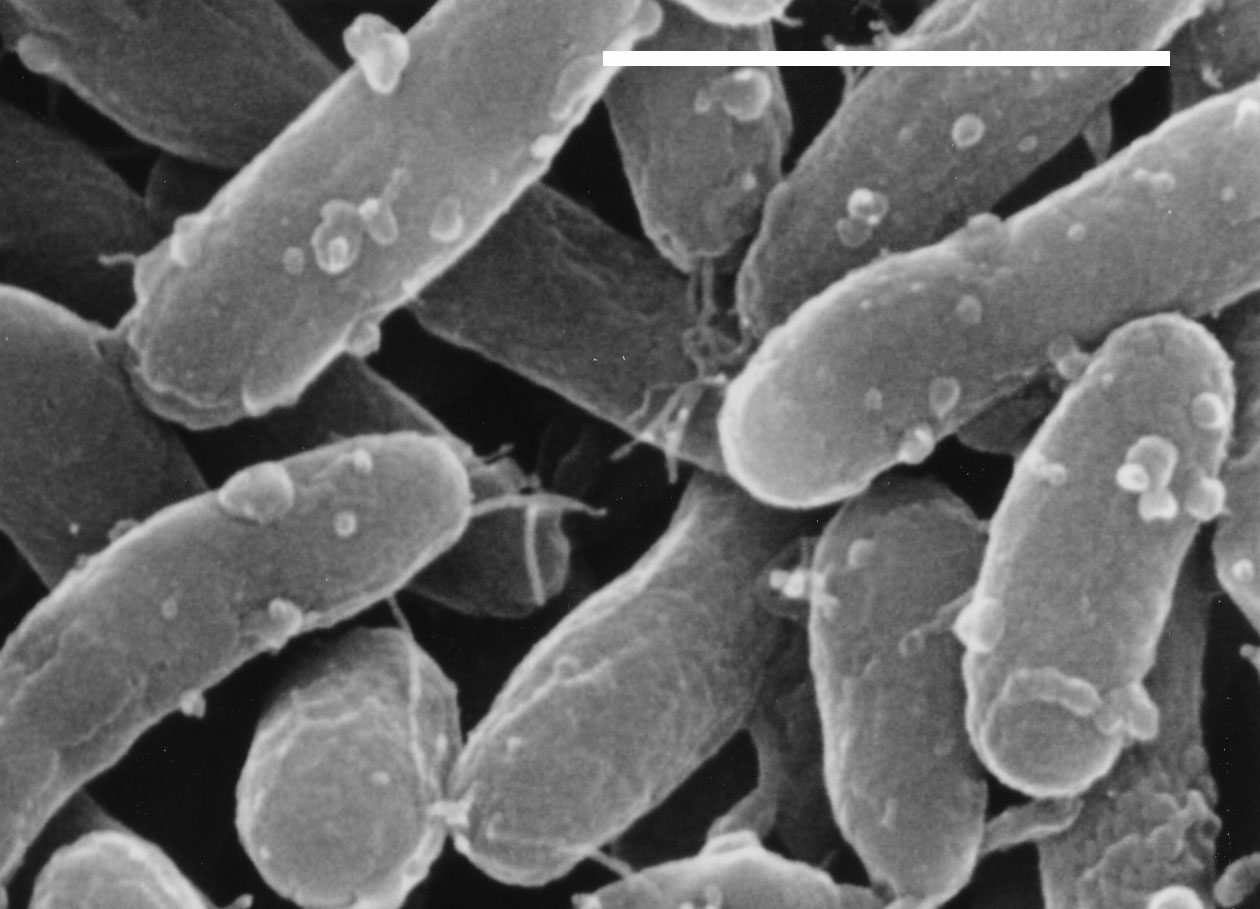 SEM image of Gemmatimonas aurantiaca. Bar = 1 micrometer.